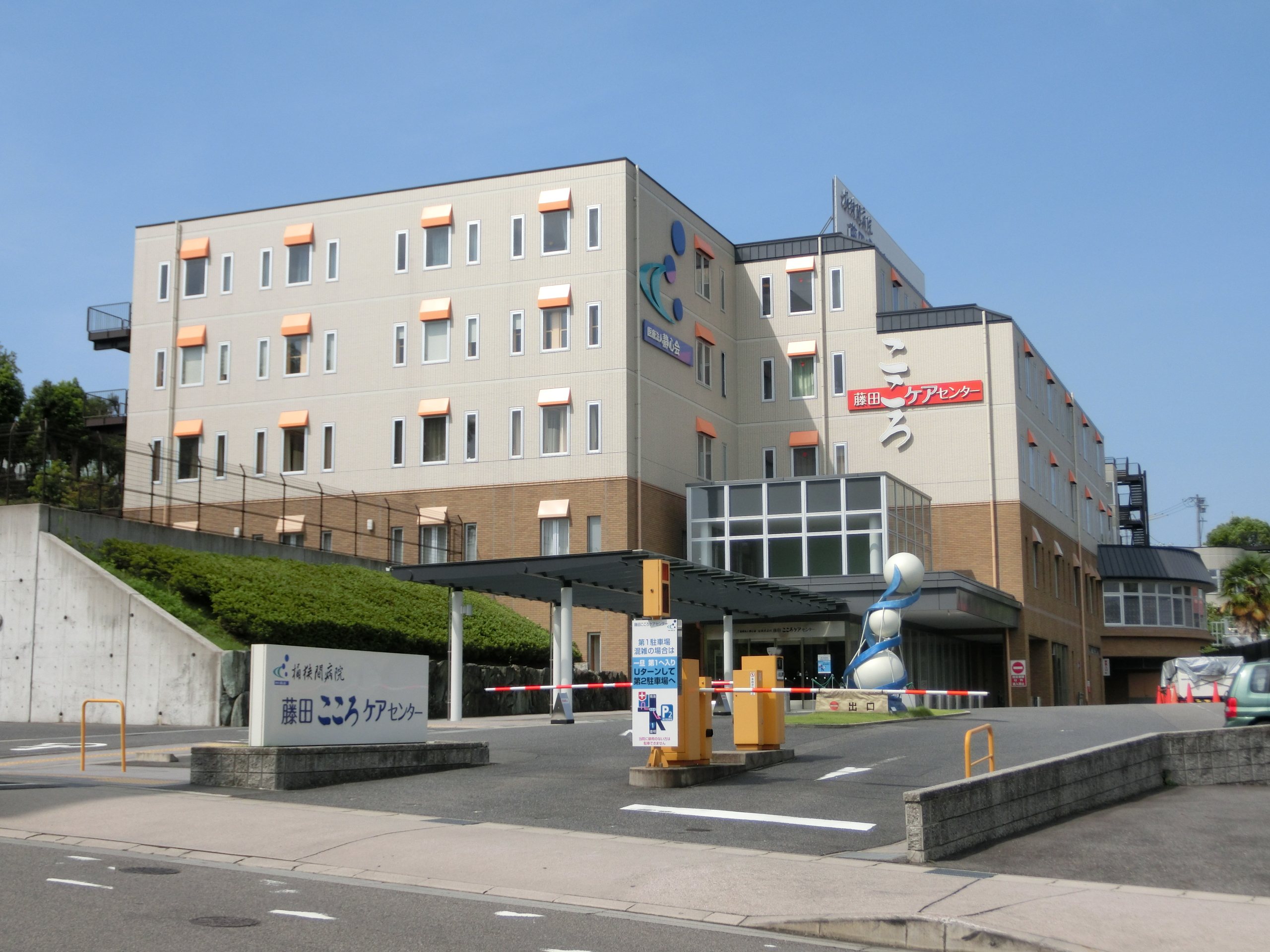 Seishinkai Okehazama Hospital